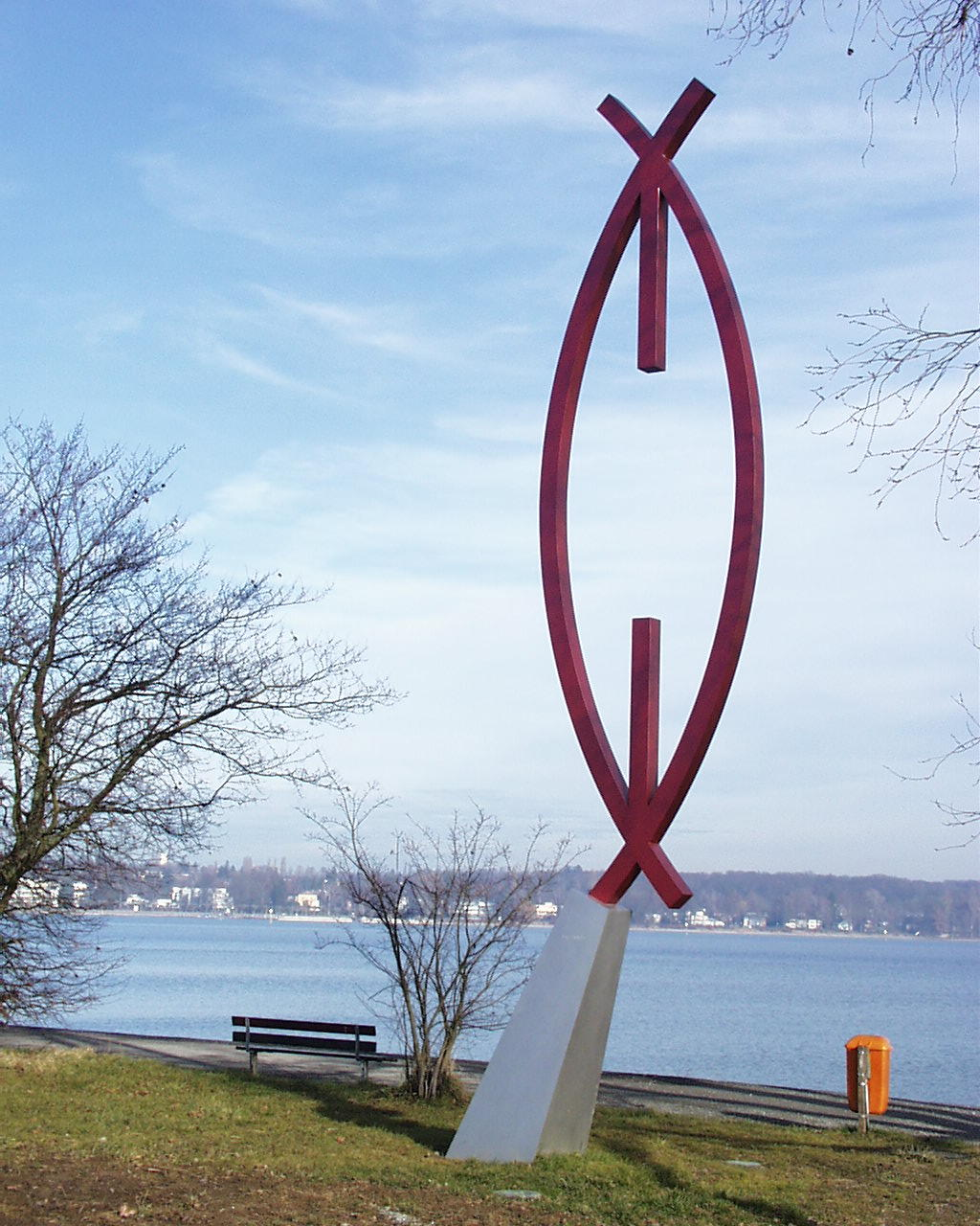 Johannes Dörflinger Kunstgrenze. After at Lake Constance the border fence between Konstanz / Germany and Kreuzlingen / Switzerland had been removed, artist Johannes Dörflinger made Tarot figures according to the Visconti Tarot. No. 2: The Saint (female) usually the Priestess.